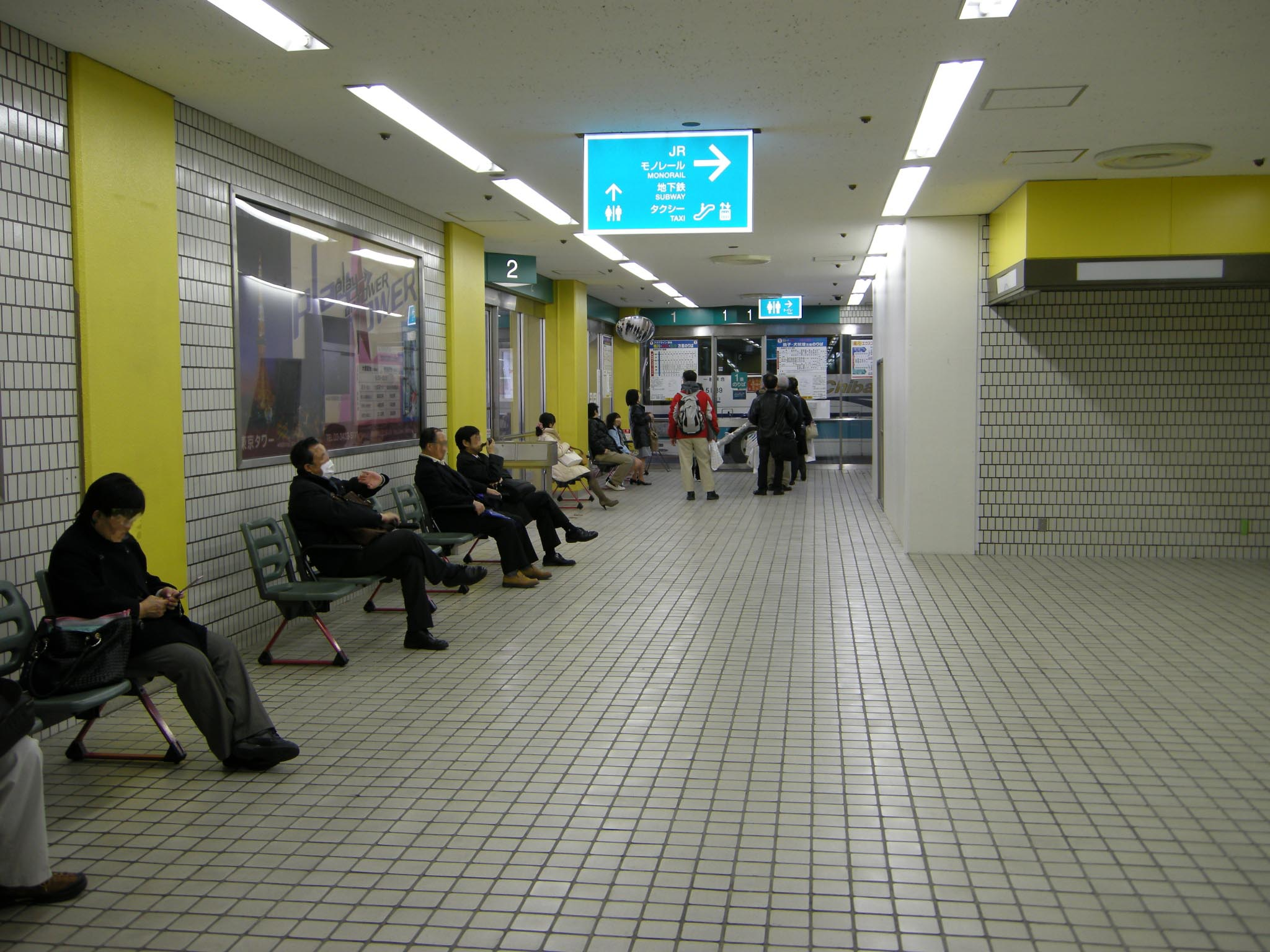 Hamamatsucho Bus Terminal waiting room for Track 1